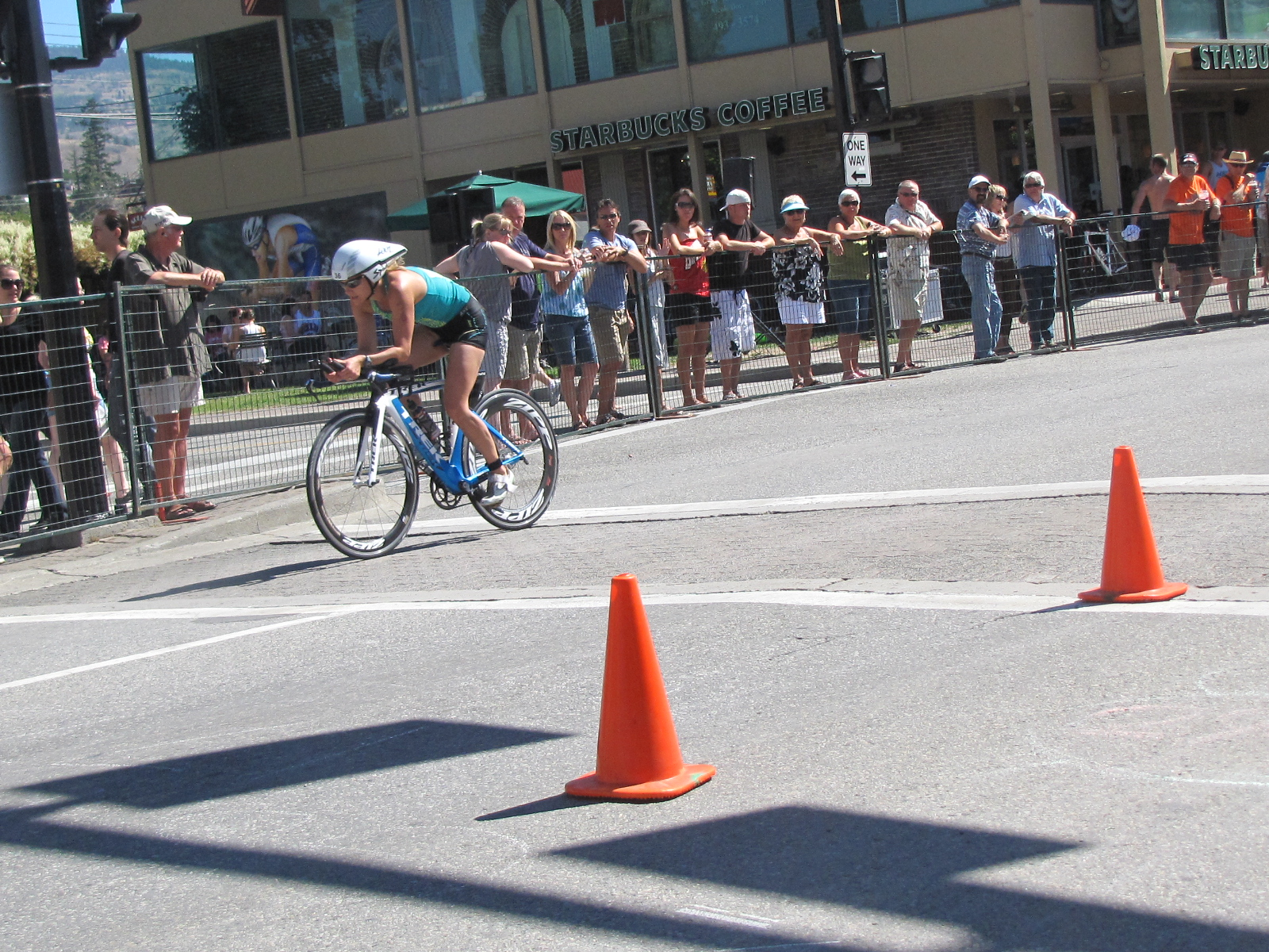 Sara Gross at Ironman Penticton 2011